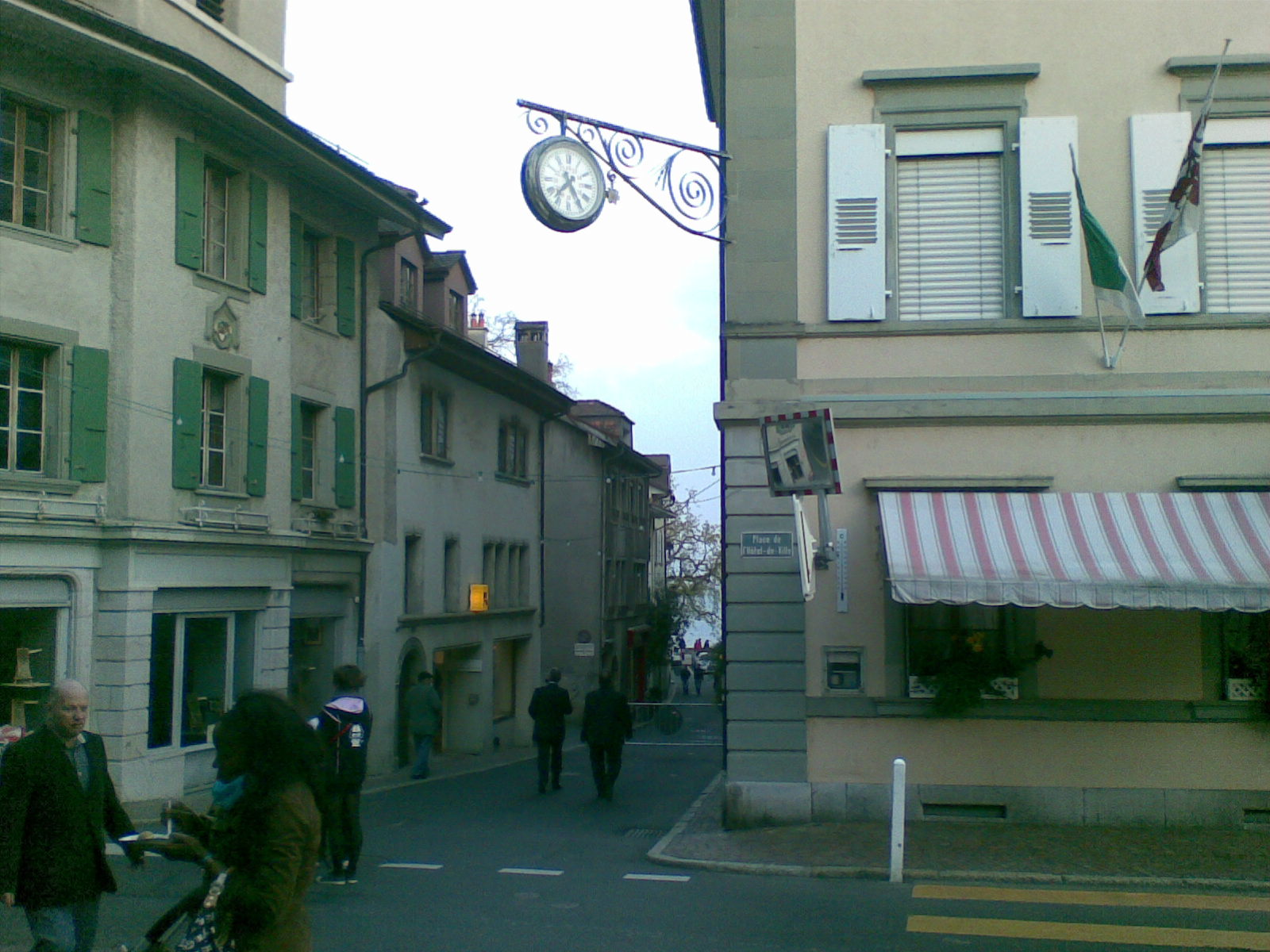 Cully, Vaud, Switzerland